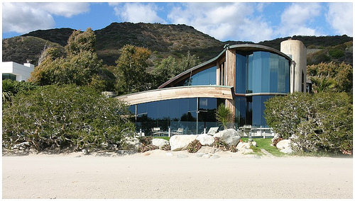 Segel House — Villa Segel. Designed by John Lautner in 1979. Located in Malibu, off Pacific Coast Highway—California State Route 1 in Southern California. Los Angeles Architecture Gallery Here About John Lautner